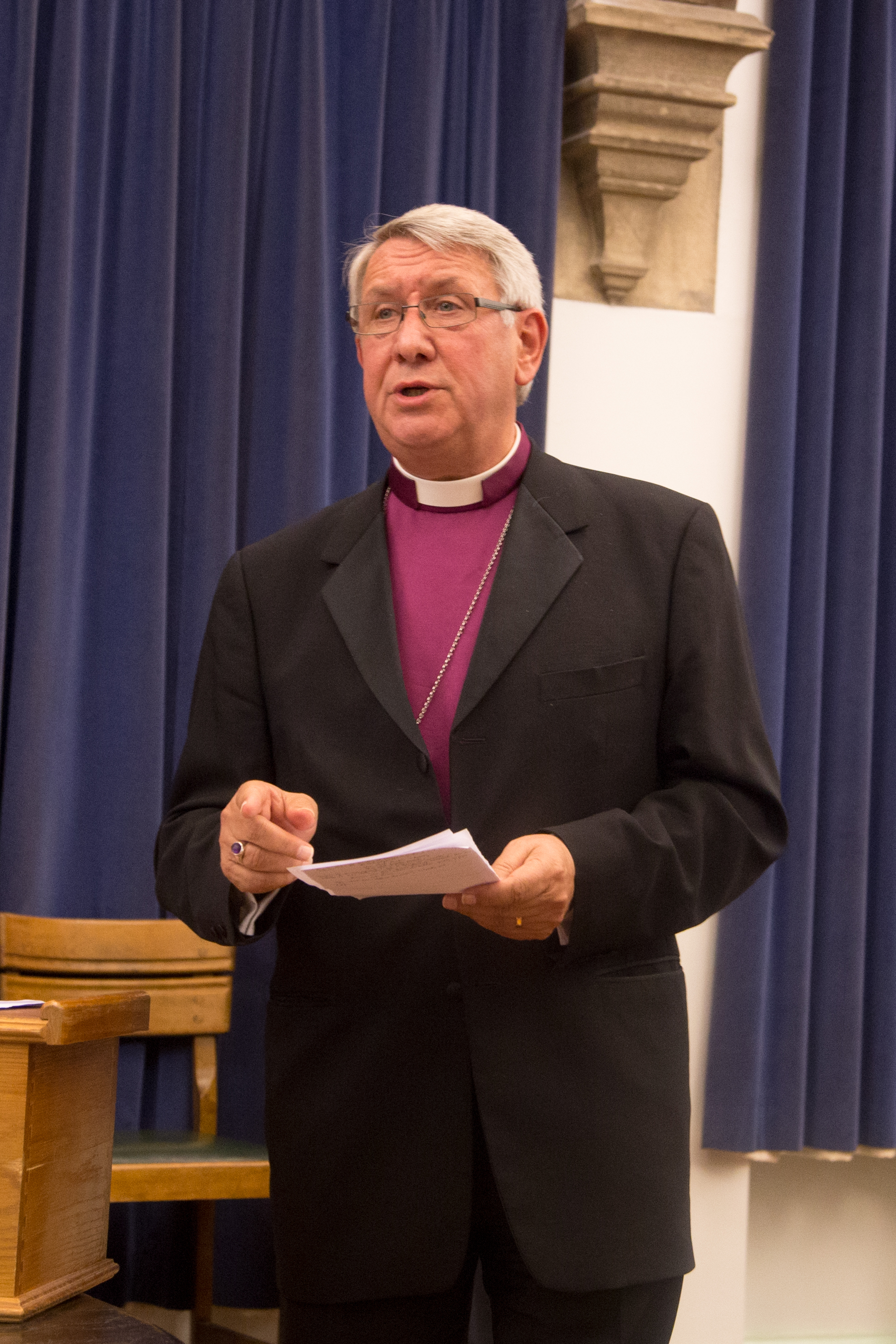 Tim Stevens at the Durham Union Society in October 2015